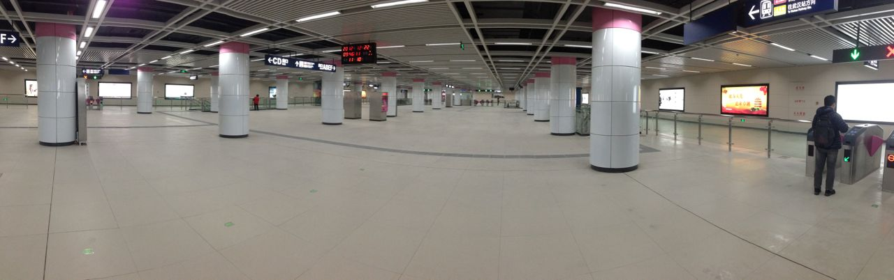 Zhongnan Road Station